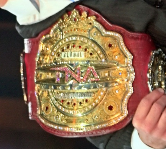 TNA Television Championship Belt. Cropped from original photo with a rotation of 270 °.